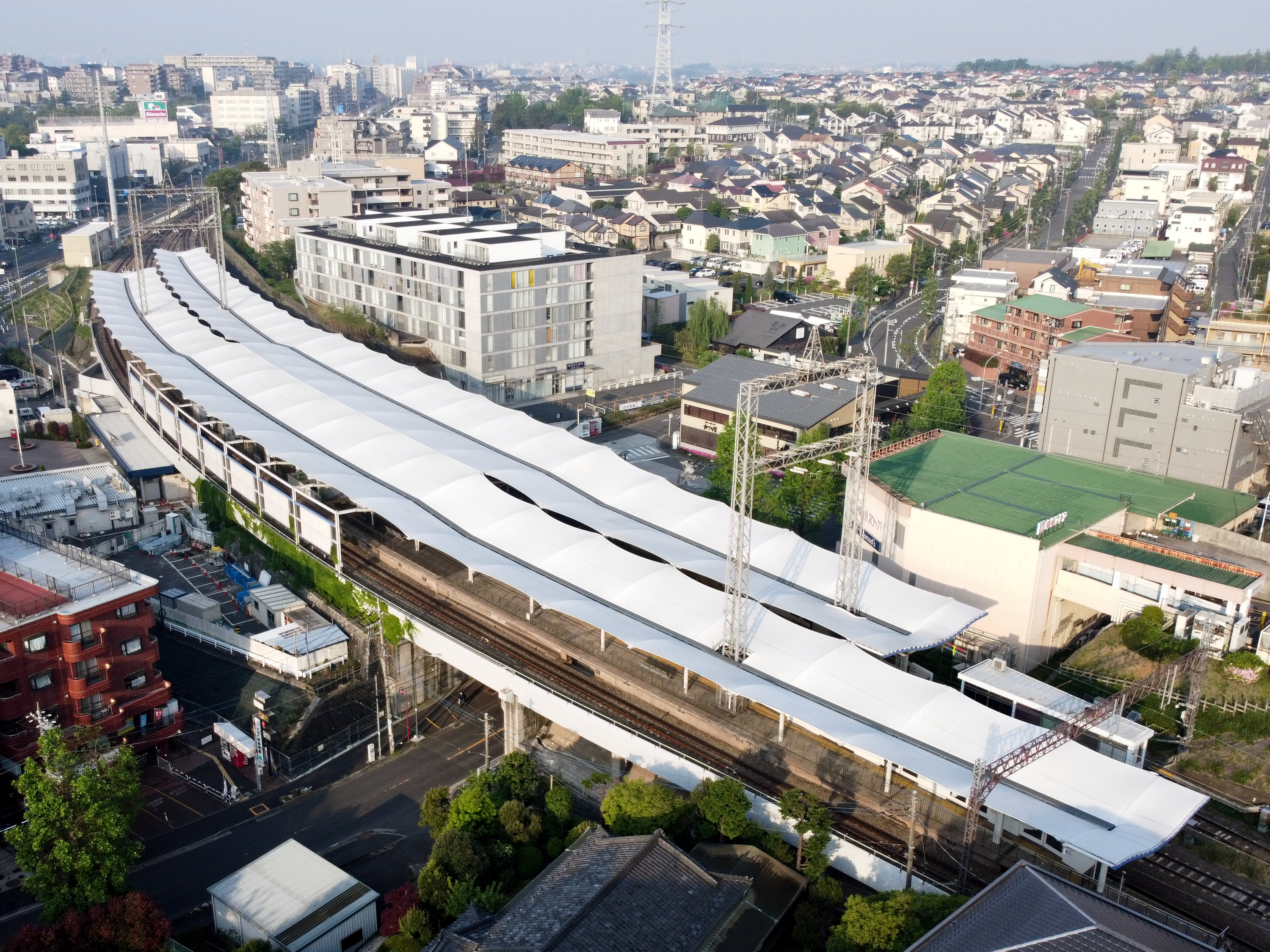 Aerial view of Eda station of Tokyu Den'en Toshi Line